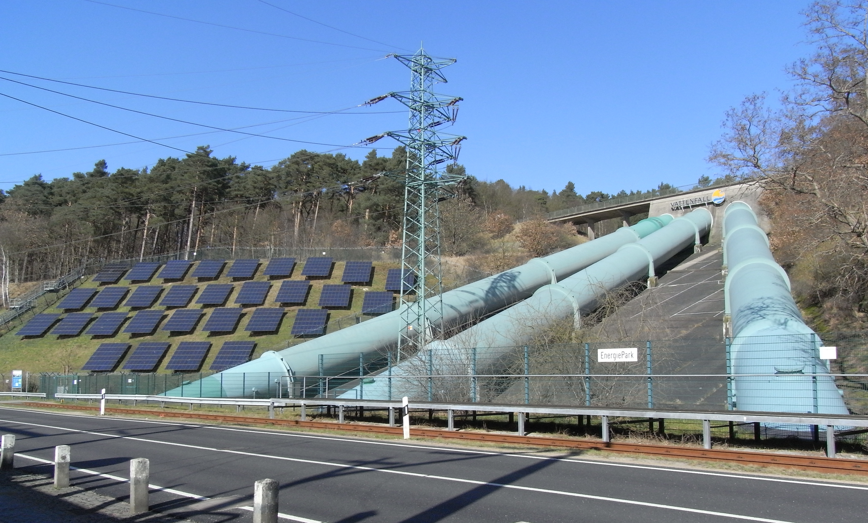 Energy park (solar panels, pumped-storage hydroelectricity) in Geeshacht, Schleswig-Holstein, Germany.